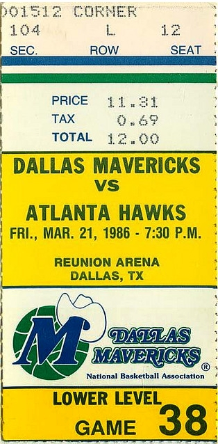 A ticket for a March 21, 1986 National Basketball Association game featuring the Atlanta Hawks versus the Dallas Mavericks at Reunion Arena.